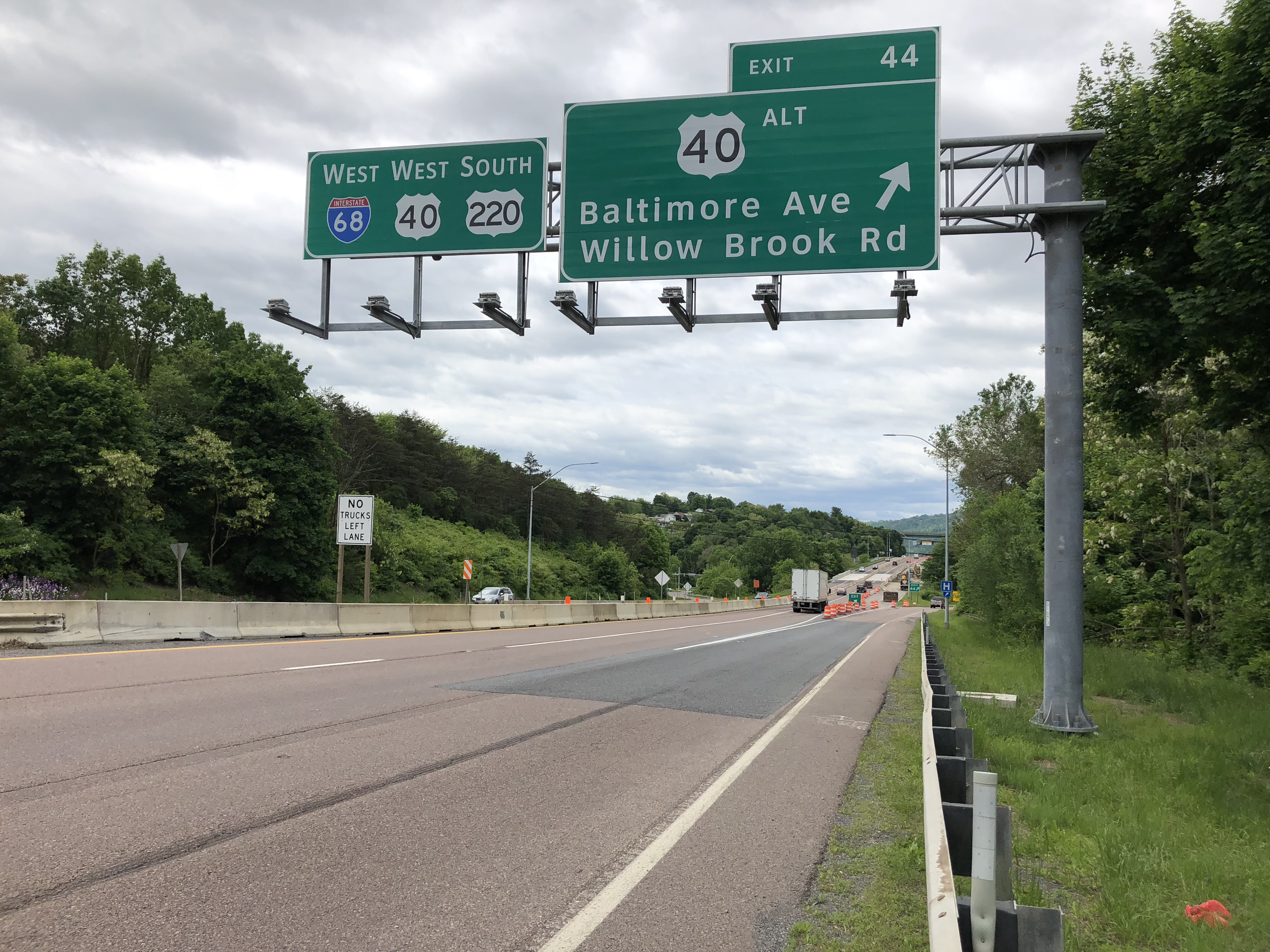 View west along Interstate 68 and U.S. Route 40 and south along U.S. Route 220 (National Freeway) at Exit 44 (U.S. Route 40 Alternate/Baltimore Avenue, Willow Brook Road) in Cumberland, Allegany County, Maryland